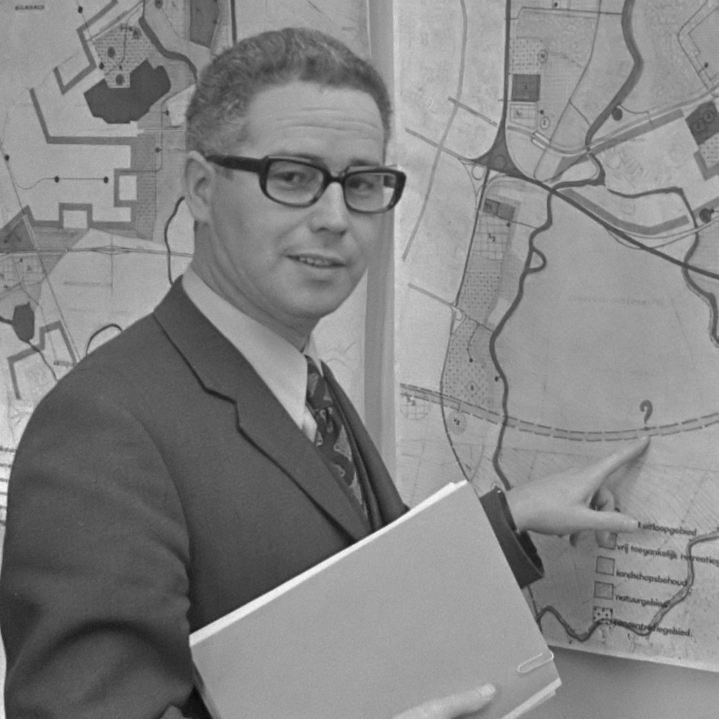 Persconferentie over groenplan voor Amsteloevers in Ouderkerk 1 februari 1972